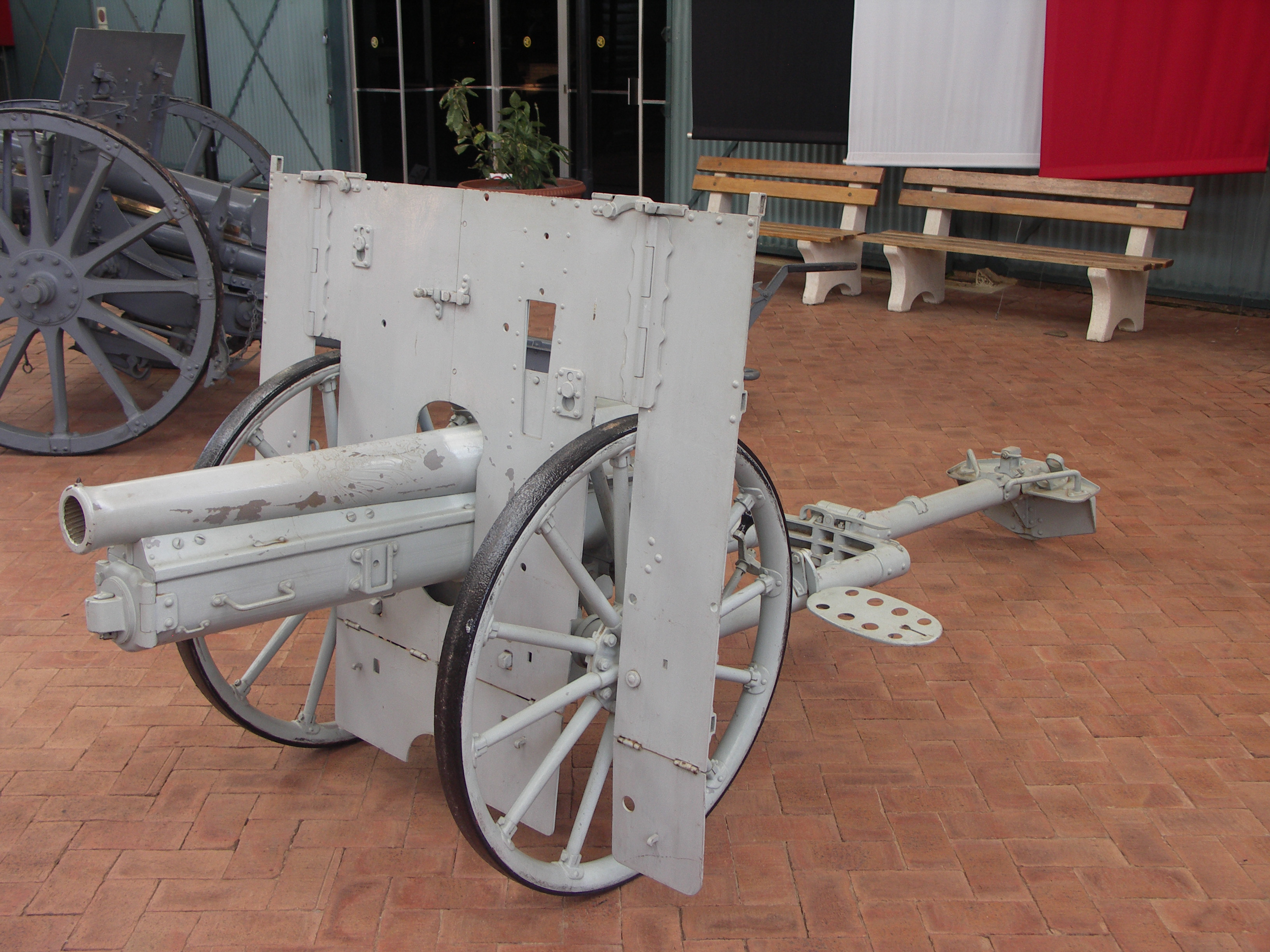 Ehrhardt 7.5 cm Model 1904 Mountain Gun, also known as the 7.5cm Schutztruppe Mountain Gun This is serial Nr.1 located at the South African National Museum of Military History Inscription on the gun reads Rheinische Metallwaaren & Maschinenfabrik Düsseldorf Nr.1